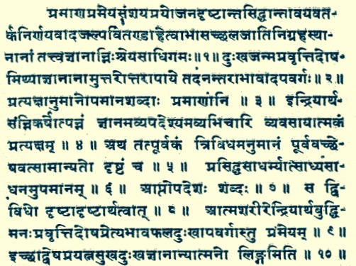 These are the first ten sutras of a pre-2nd century CE Hindu Sanskrit text, whose manuscript was published in 1896. The copyrights of this publication have expired, and the photo image is of the 1896 publication. The year of publication can be verified here. The Nyaya sutras are the foundational text of the Nyaya school of Hindu philosophy.